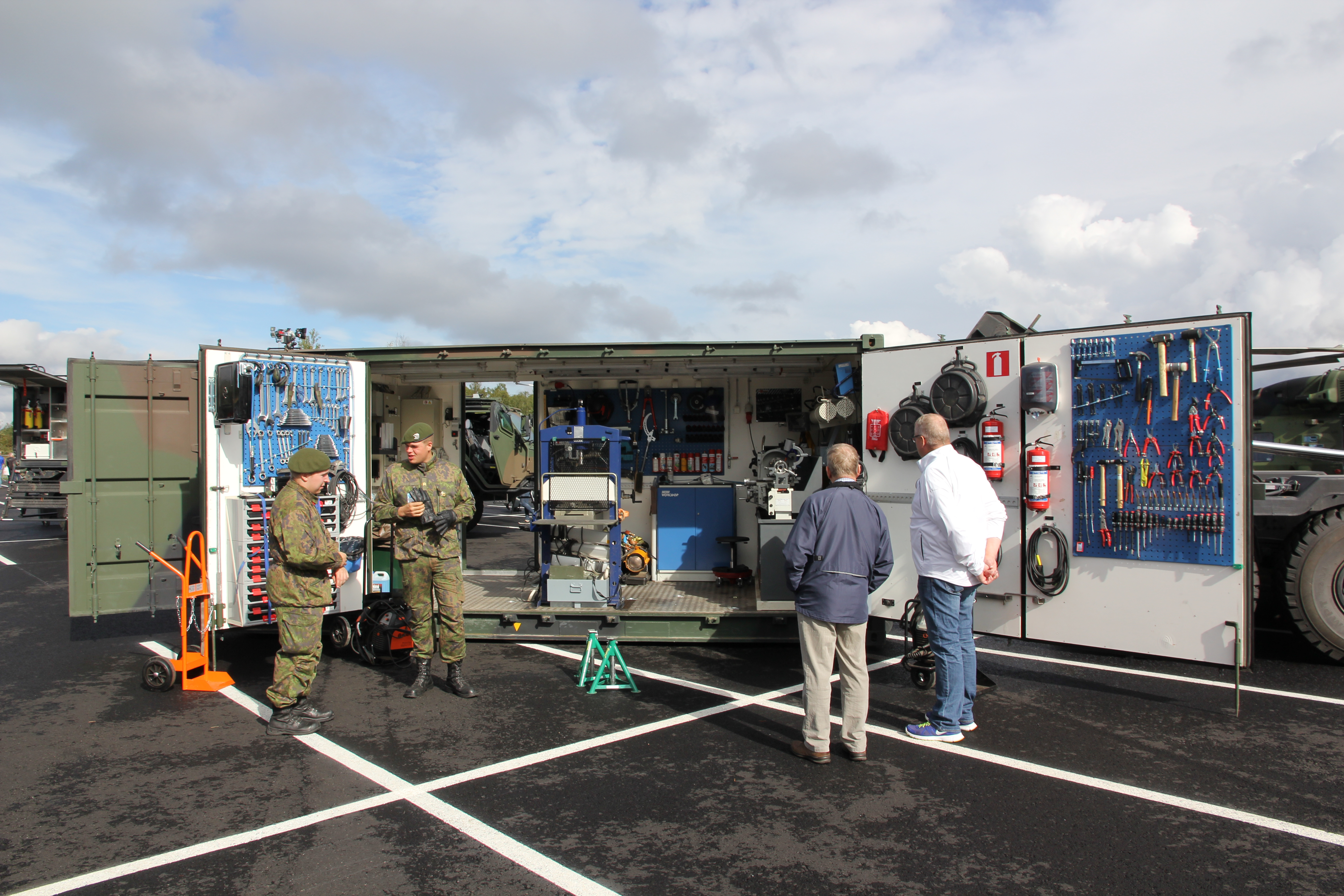 Finnish military mobile workshop in a container on display at Comprehensive security exhibition 2015 in Tampere.